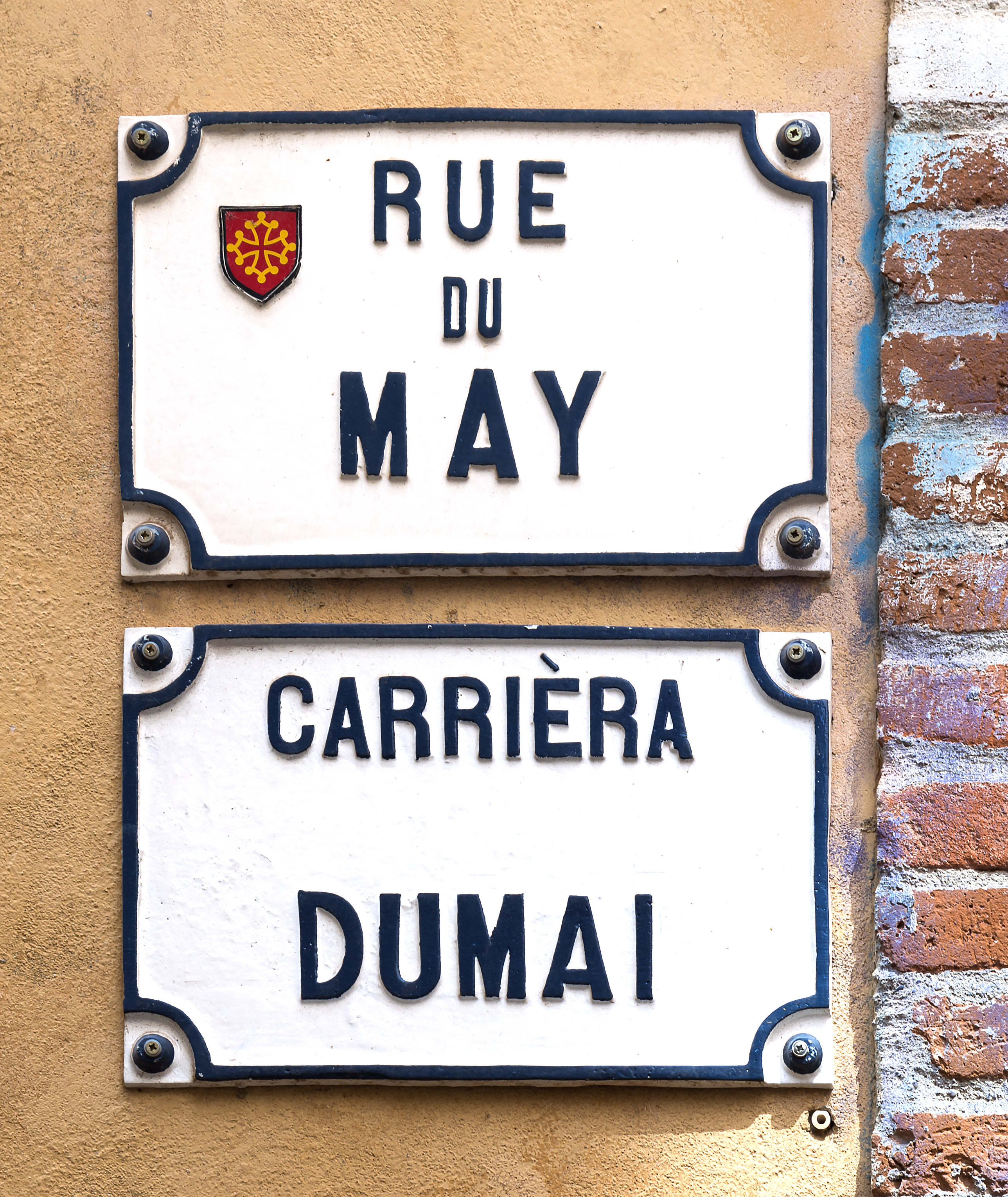 Rue du May , in Toulouse - Street name sign. They have the particularity of being: in French and Occitan.